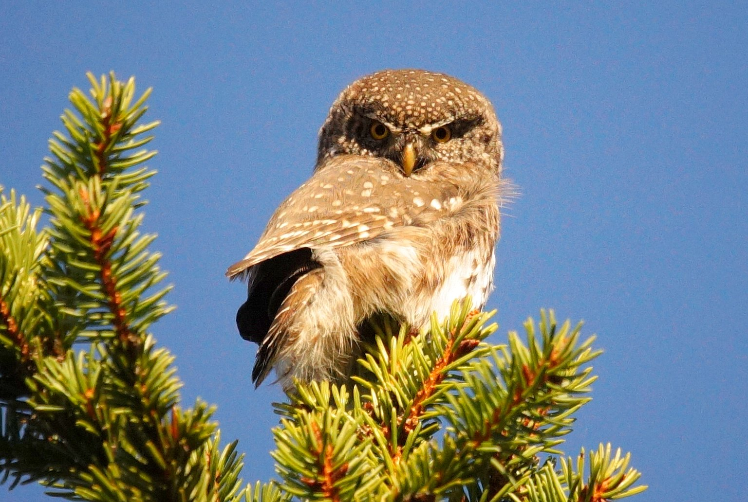 Eurasian pygmy owl (Glaucidium passerinum), Pälkäne, Finland